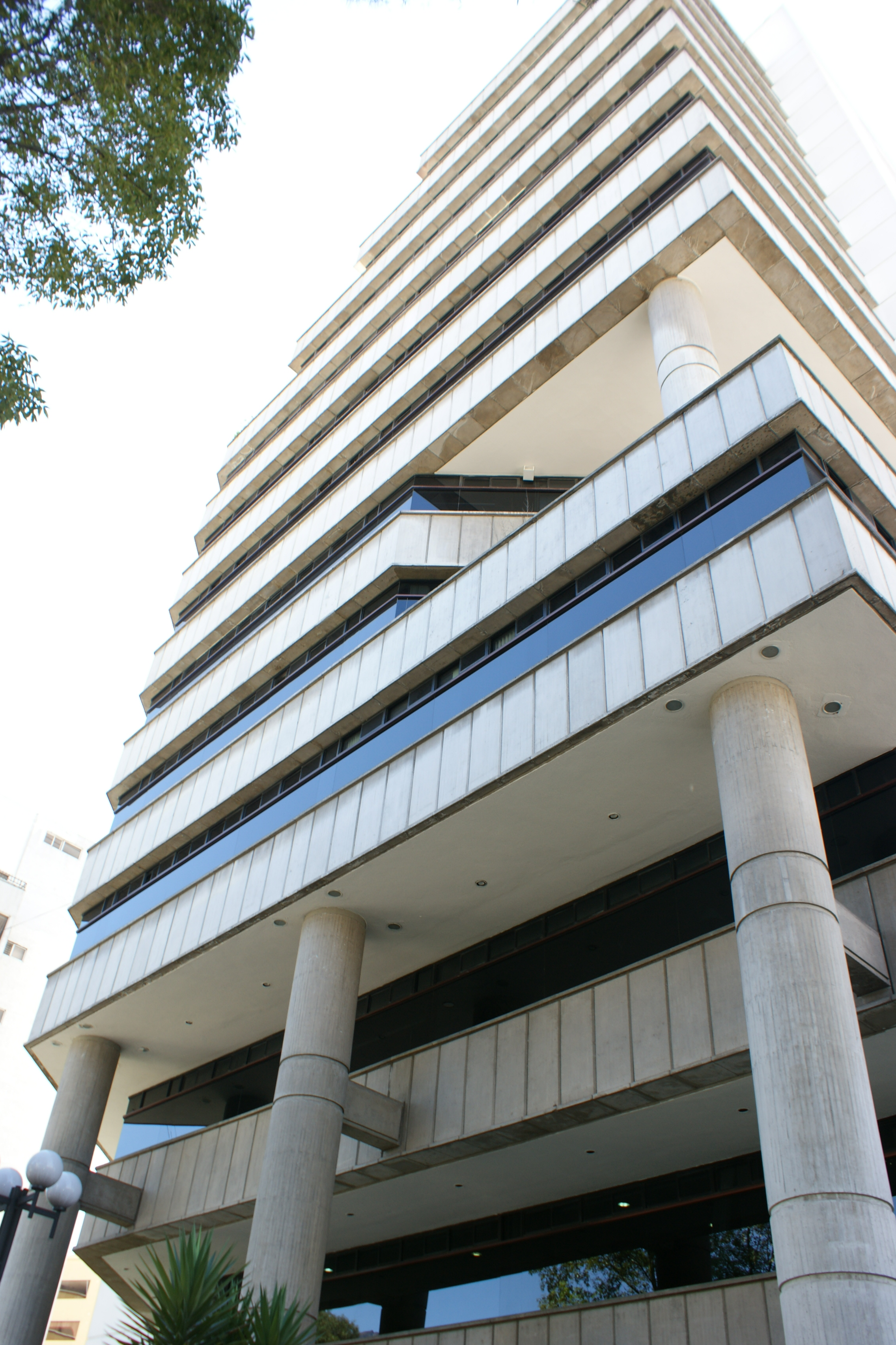 Building the Ecuadorian Institute of Intellectual Property.